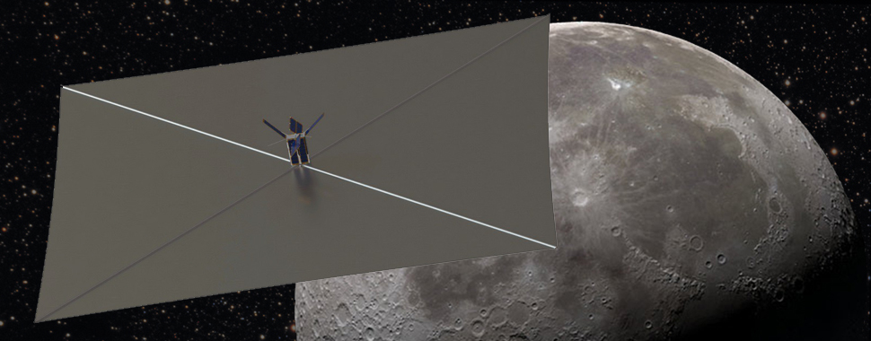 Lunar Flashlight is a planned low-cost 6U CubeSat mission developed by a team from the Jet Propulsion Laboratory (JPL), the University of California, Los Angeles (UCLA), and NASA Marshall Space Flight Center, to explore, locate and estimate size and composition of water ice deposits on the Moon for future exploitation by robots or humans. The spacecraft, to be propelled by a 80 m2 solar sail, was selected in early 2015 by NASA's Advanced Exploration Systems (AES).